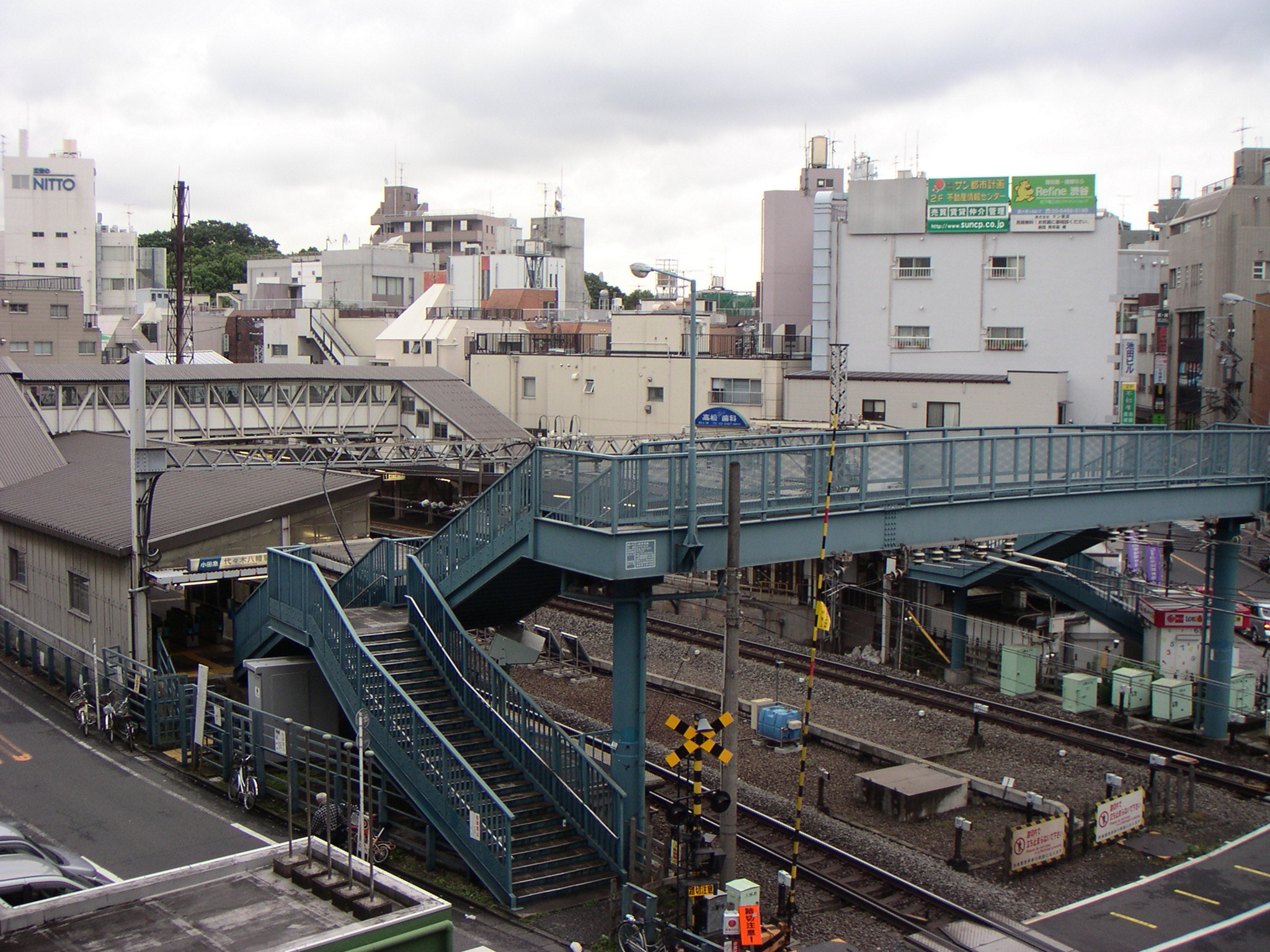 Yoyogihachiman Station